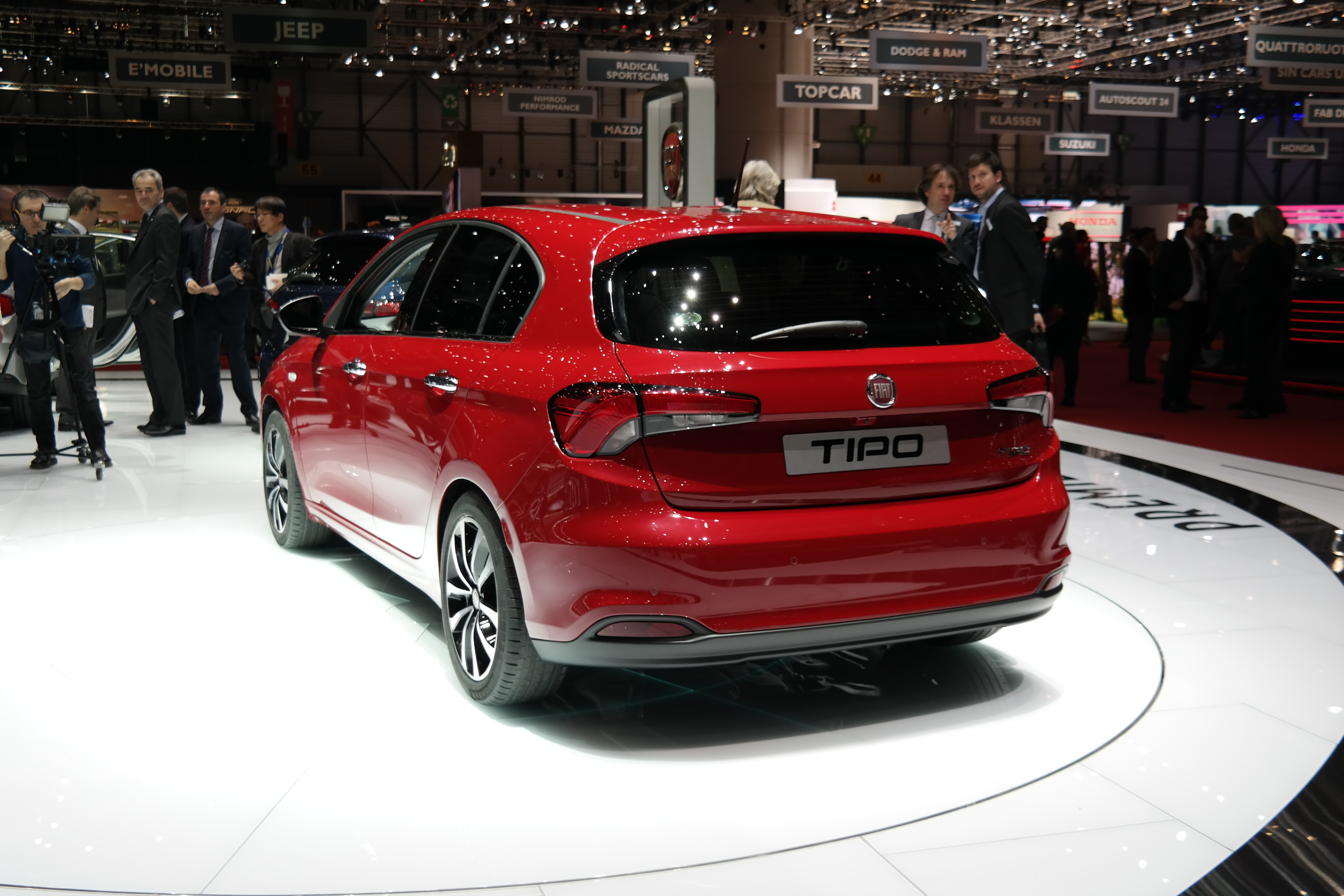 Geneva Motor Show 2016 (photo taken on the first press day)